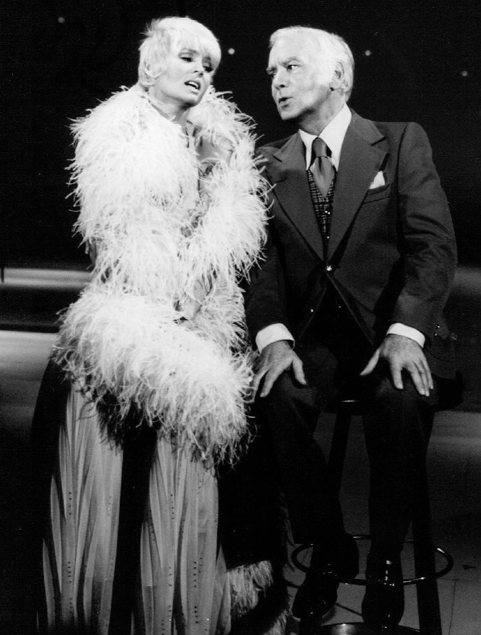 Photo of Joey Heatherton an her father, Ray. The pair had a 4 week summer replacement television show, Joey and Dad, in 1975.